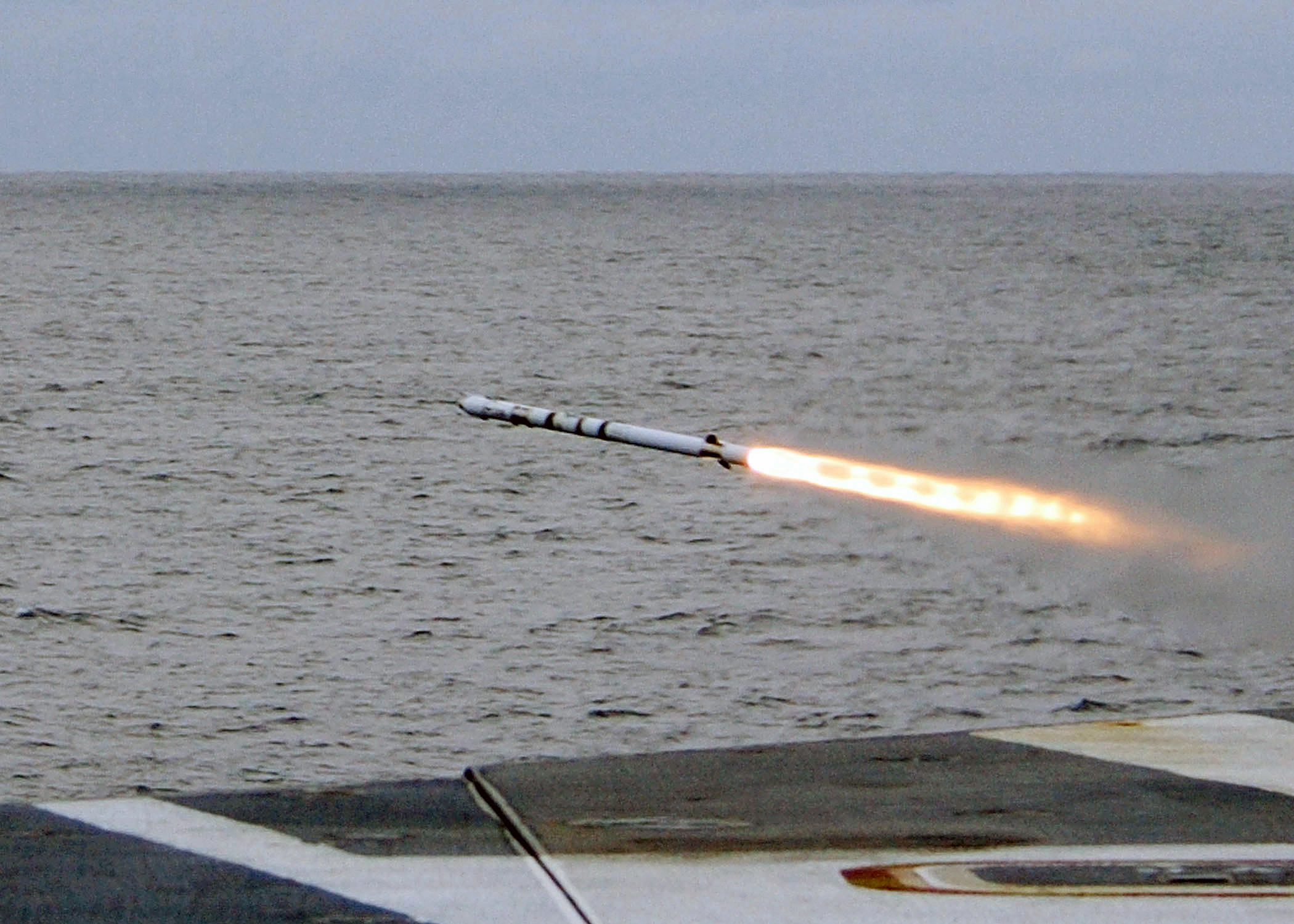 A US Navy (USN) RIM-116 Rolling Airframe MISSILE (RAM) launches off the port side of the USN Nimitz Class Aircraft Carrier USS DWIGHT D. EISENHOWER (CVN 69), during an exercise designed to demonstrate the ships self-defense combat system. The RIM-116 RAM is designed as an all-weather, high-firepower, low-cost, self-defense system against anti-ship cruise MISSILEs and other asymmetric threats. The EISENHOWER is underway conducting routine operations.